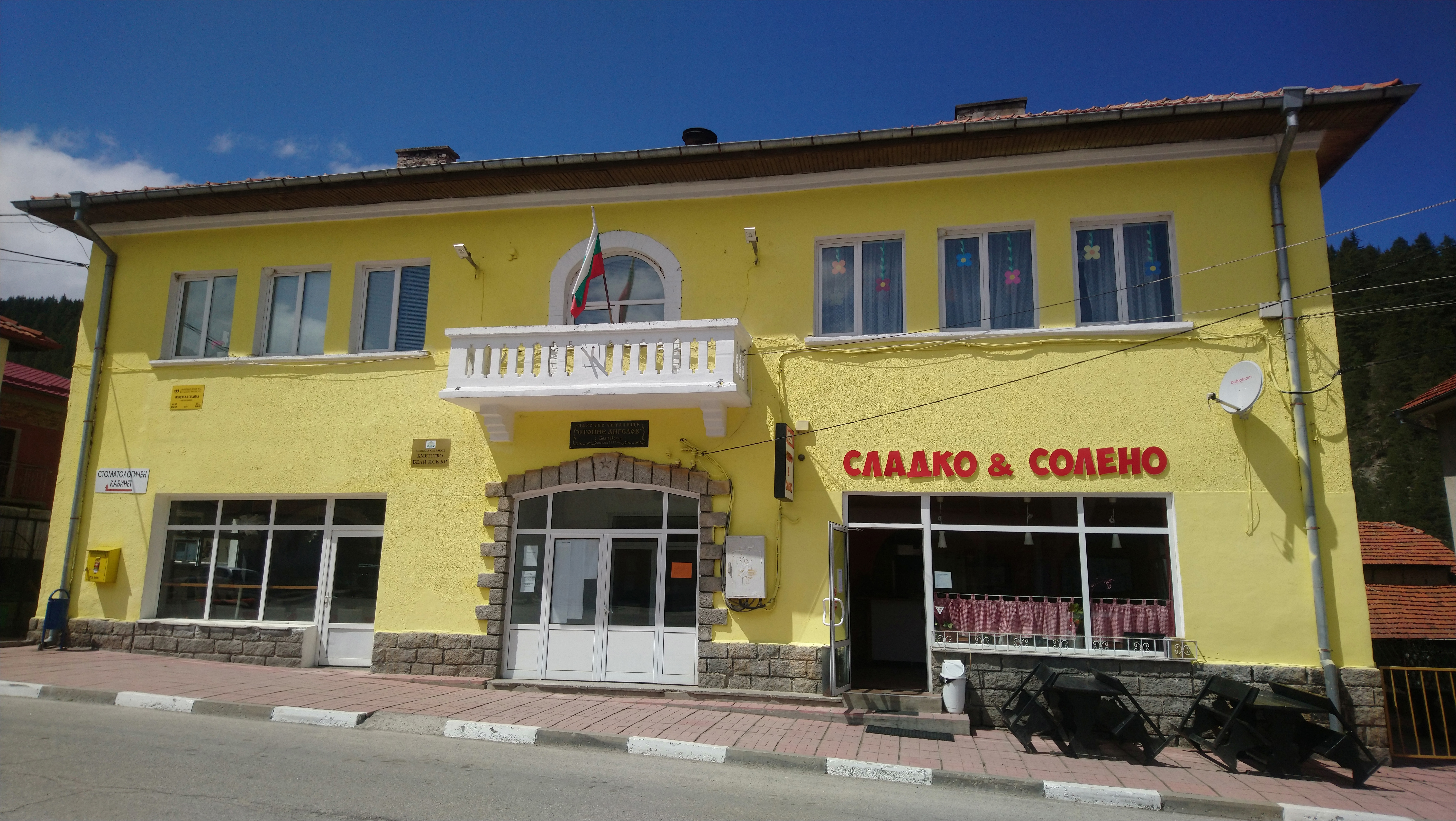 Building of the Town Hall of Beli Iskar